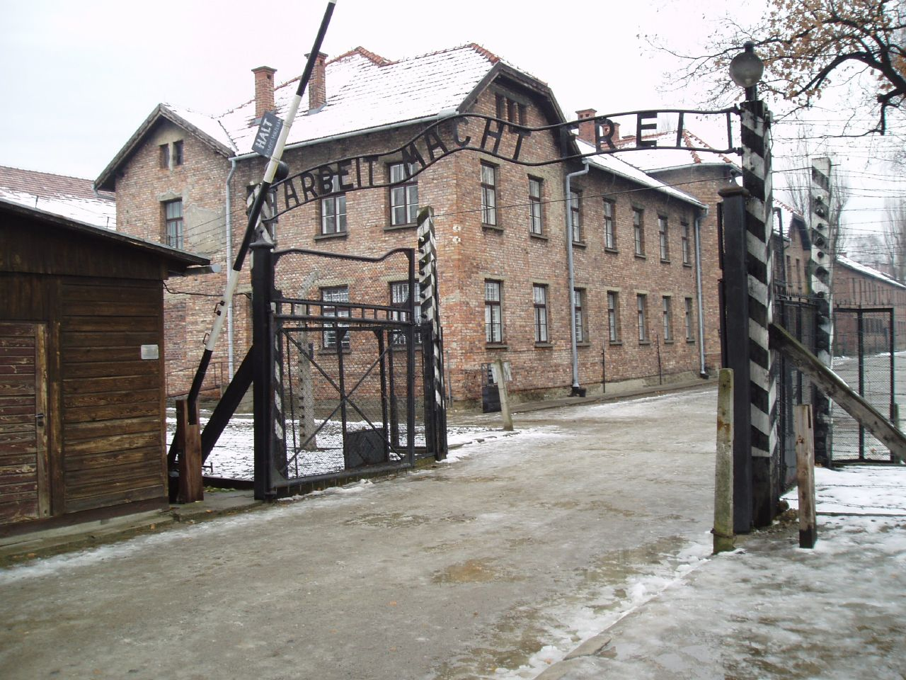 The "Arbeit macht frei" sign at the main gate of the Auschwitz I concentration camp (1940-1945) in German-occupied Poland. Visible old Austrian and later Polish Army barracks dated before 1939.Arbeit Macht Frei (Work sets you free)